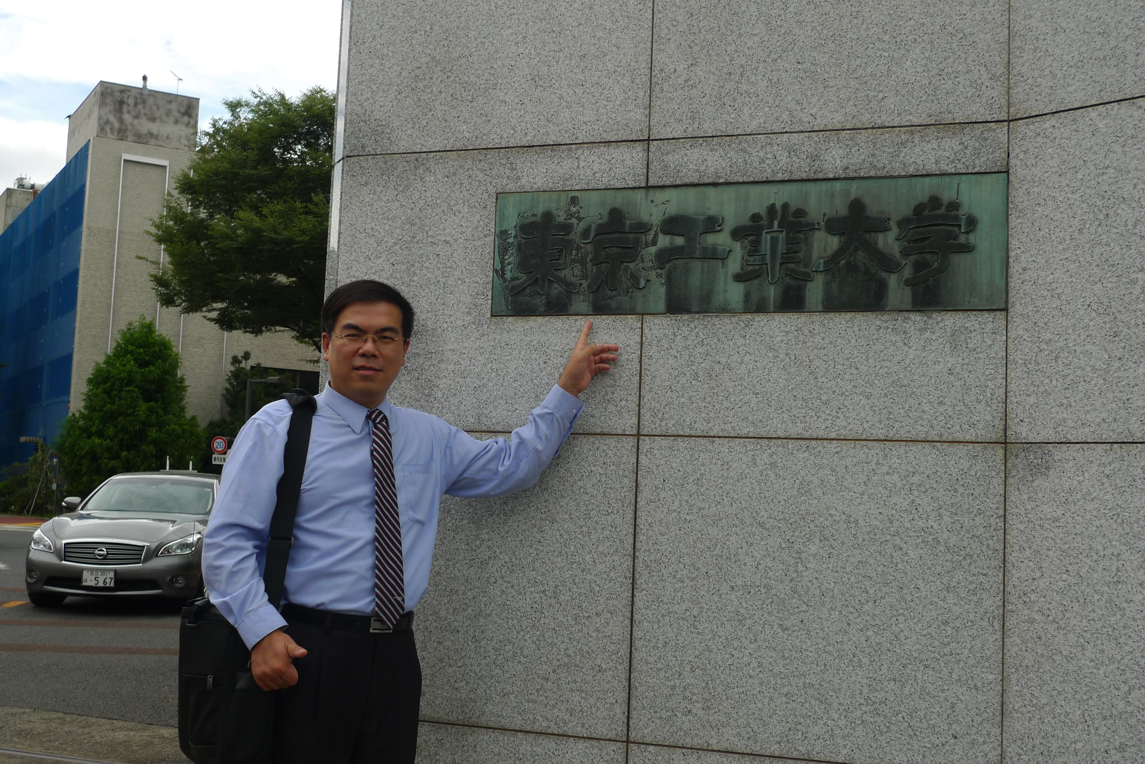 Chi-Ming Peng at Tokyo Institute of Technology.